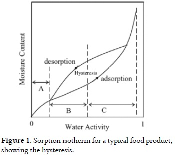 Graph